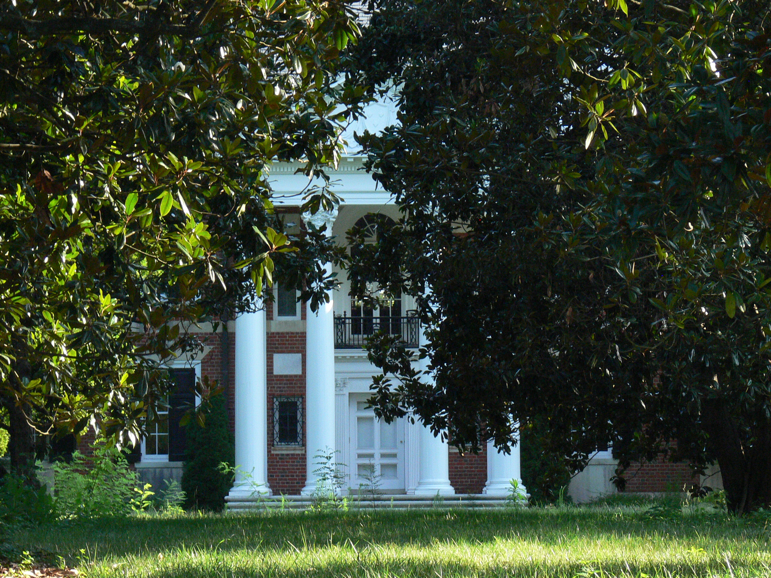 North elevation of Westbourne, the house of author Douglas Southall Freeman, in Richmond, Virginia.